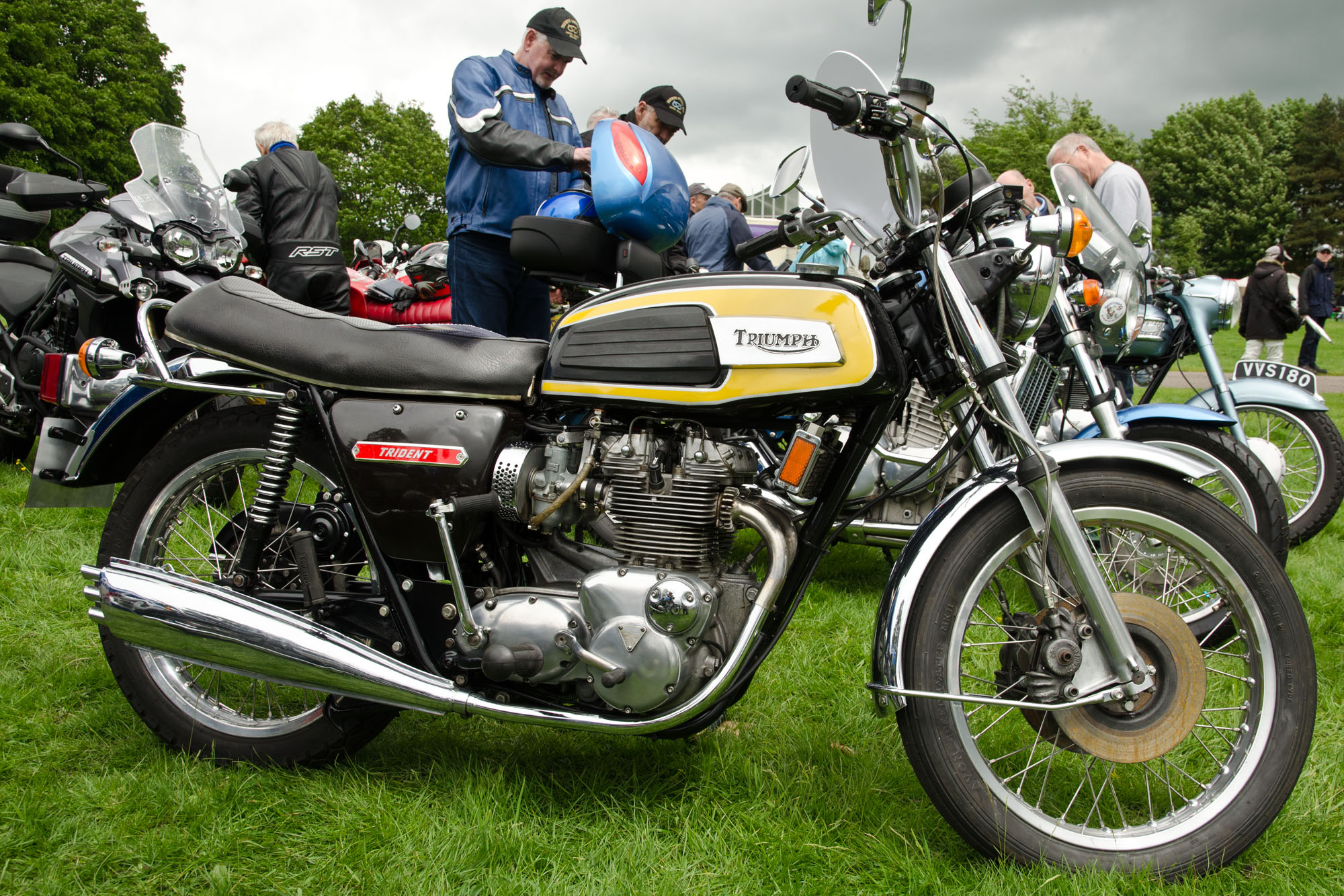 Capesthorne Hall Classic Car Show 25/05/2014